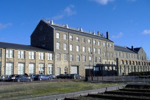 English Heritage - National Monuments record centre Housed in former Great Western Railway offices at Churchward.